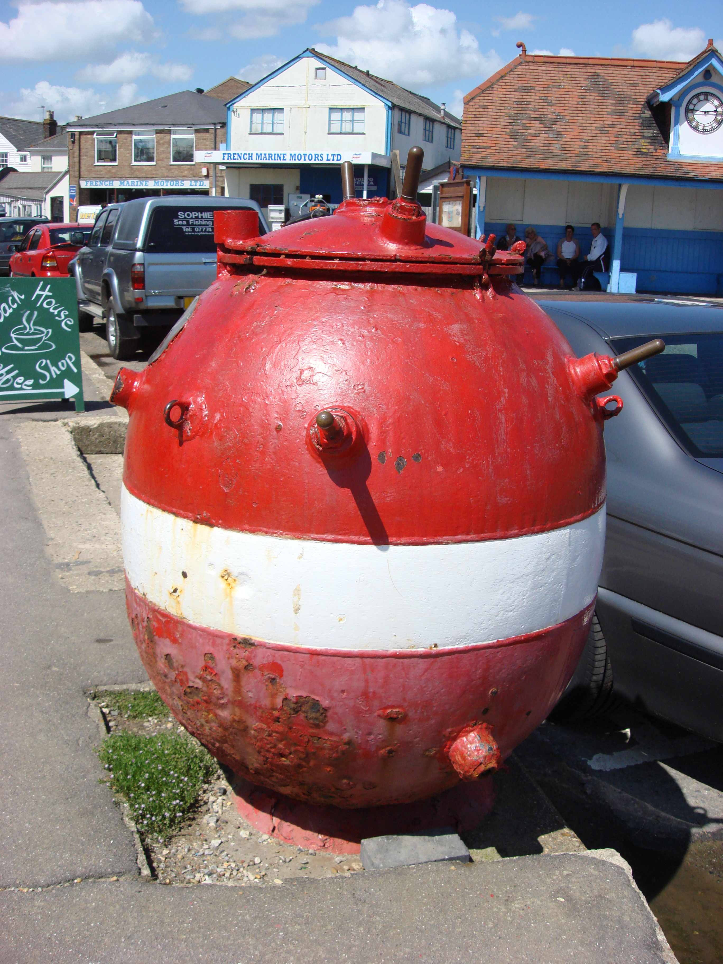 Standard British Mk 14 Sea Mine, This Sea Mine is on display on the Riverfront at Brightlingsea and is being used as a collection box for The Royal British Legion